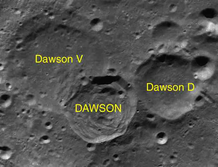 Part of the chart LAC-142 used for the presentation